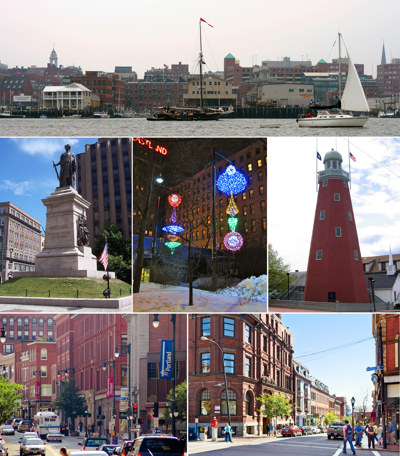 Clockwise from top: Waterfront, the Portland Observatory, the corner of Middle and Exchange Street, Congress Street, Monument Square, and Christmas lights in Congress Square Plaza. Photos clockwise from top: File:Portland_Waterfront.jpeg